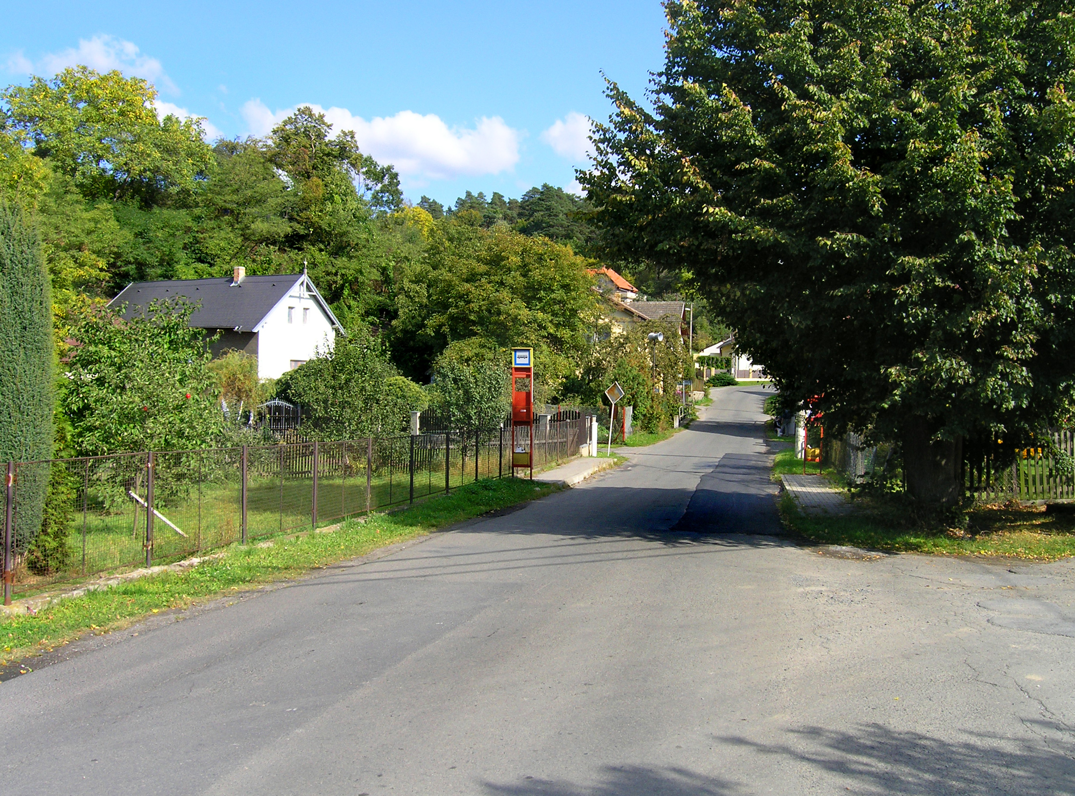 Common in Březí, Czech Republic